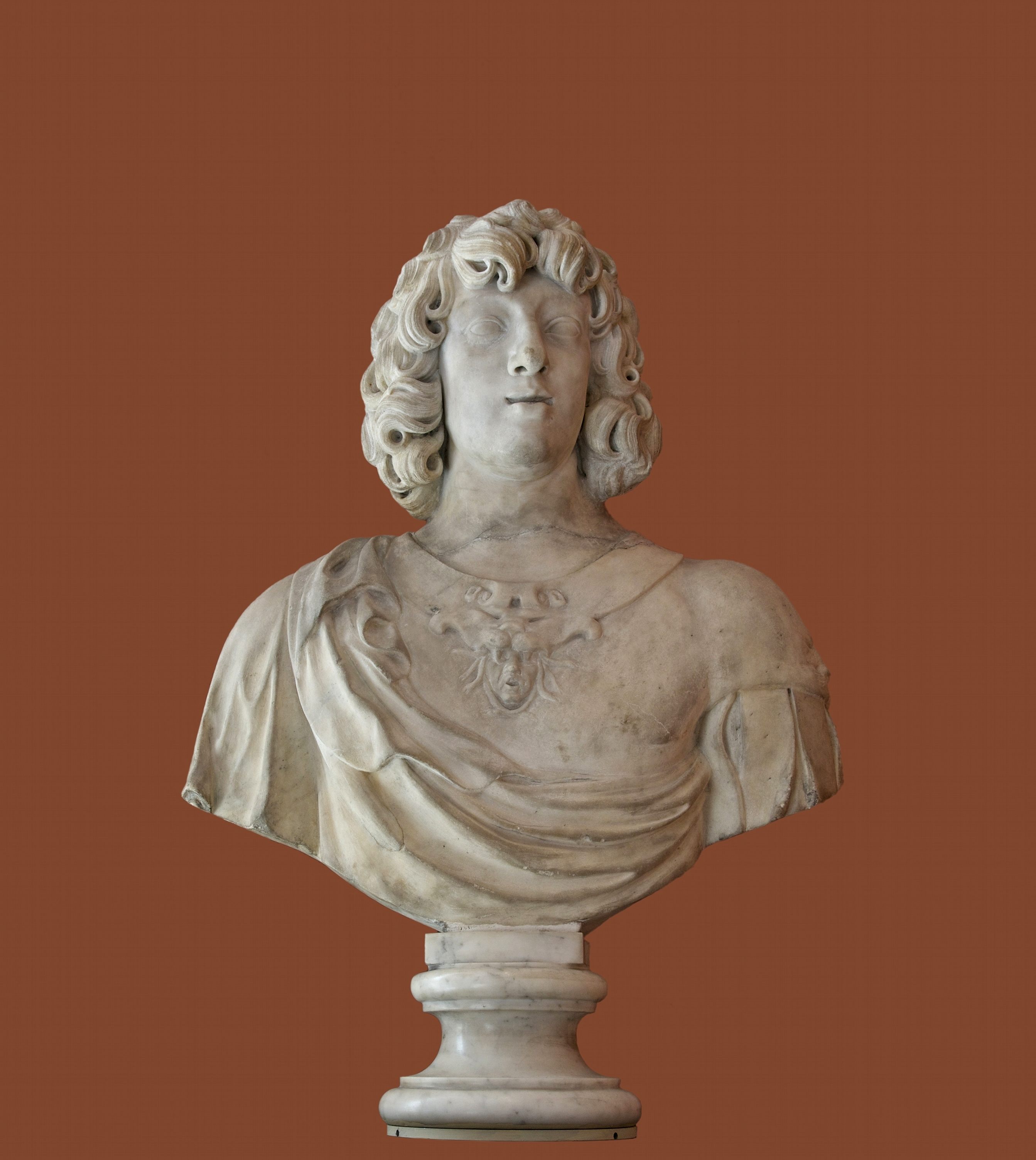 Presumed bust of Gaston of France, Duke of Orléans, young brother of king Louis XIII